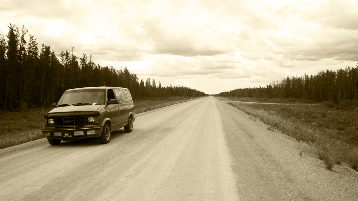 Sambaa Deh Falls on Trout River